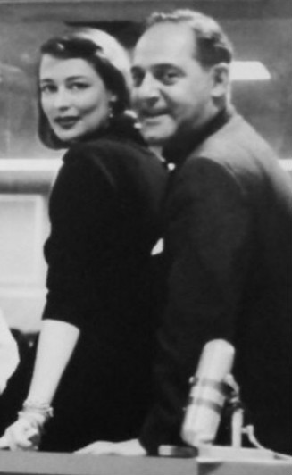 Publicity photo of Tedi Thurman (Miss Monitor) and Ben Grauer in Monitors Radio Central, 1957.